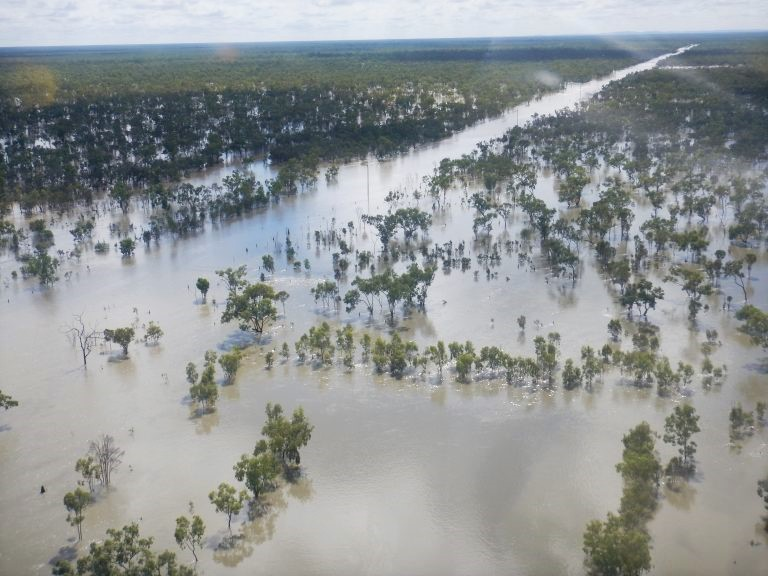 Significant flooding west of Croydon, Queensland, from the extremely heavy rainfall generated by Severe Tropical Cyclone Nora in March 2018. Brightness and saturation edited from original.